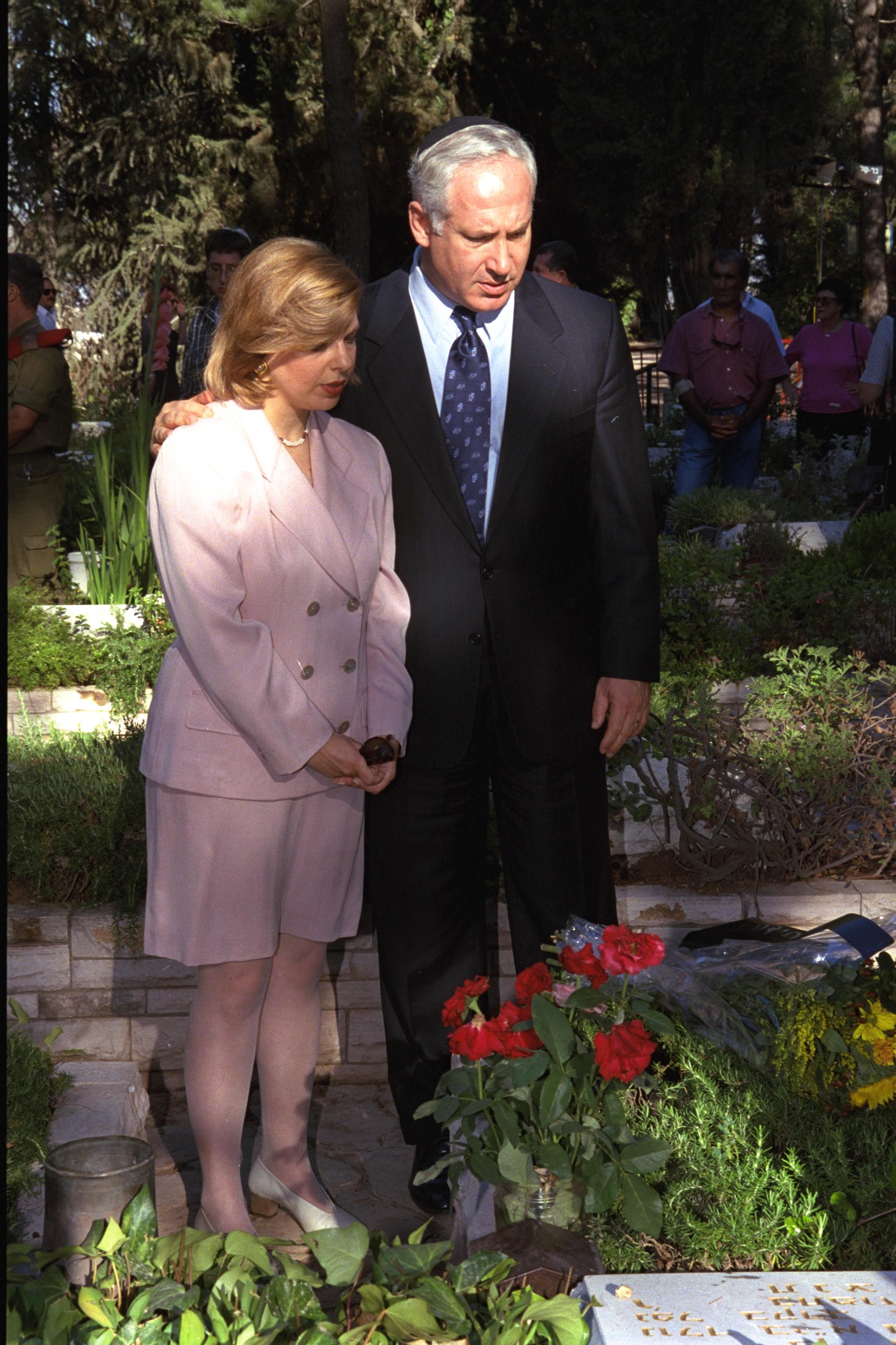 Prime Minister Benjamin Netanyahu and his wife Sara at Mt. Herzl Military Cemetery in Jerusalem for the memorial service held for Yoni Netanyahu, the prime minister's brother, who rescued hostages in Entebbe, Uganda. ראש הממשלה, בנימין נתניהו ואישתו שרה בטקס האזכרה לנופלים במבצע אנטבה ובניהם אחיו של ראש הממשלה, יוני נתניהו